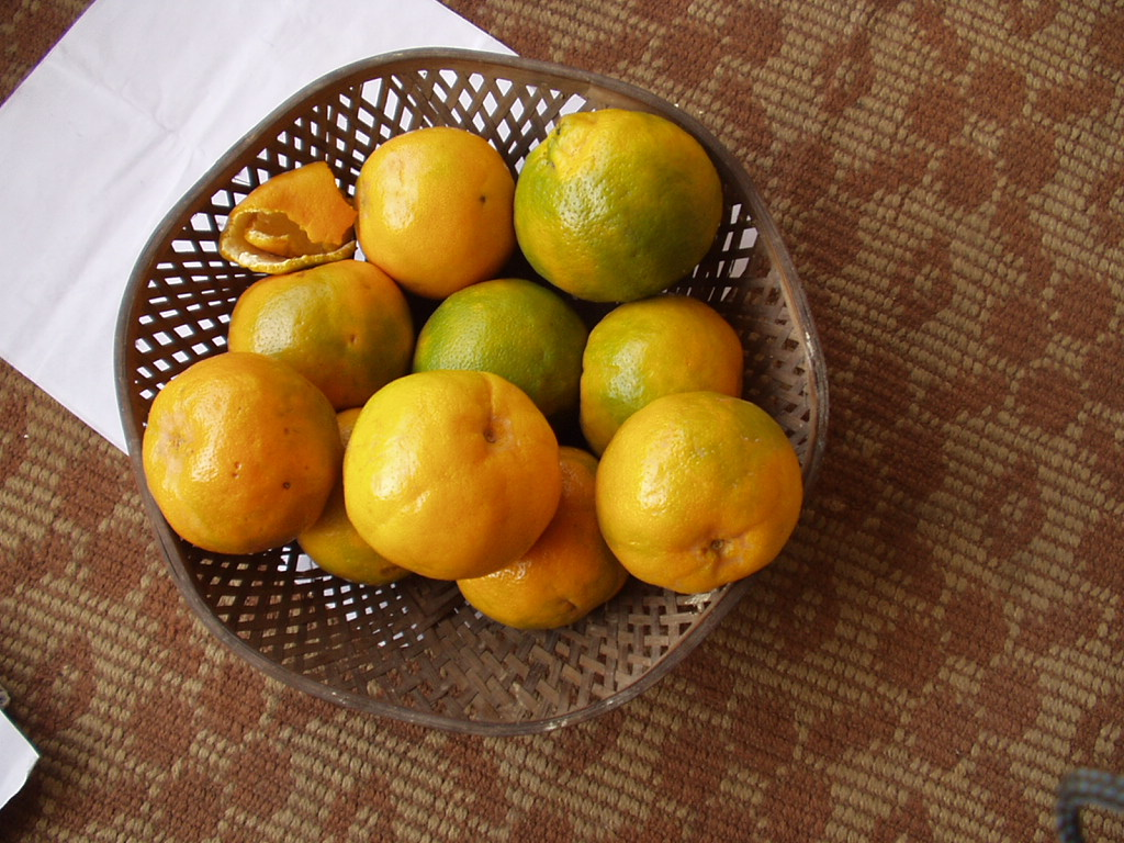 orange. Mamun2a 08:33, 23 August 2006 (UTC)